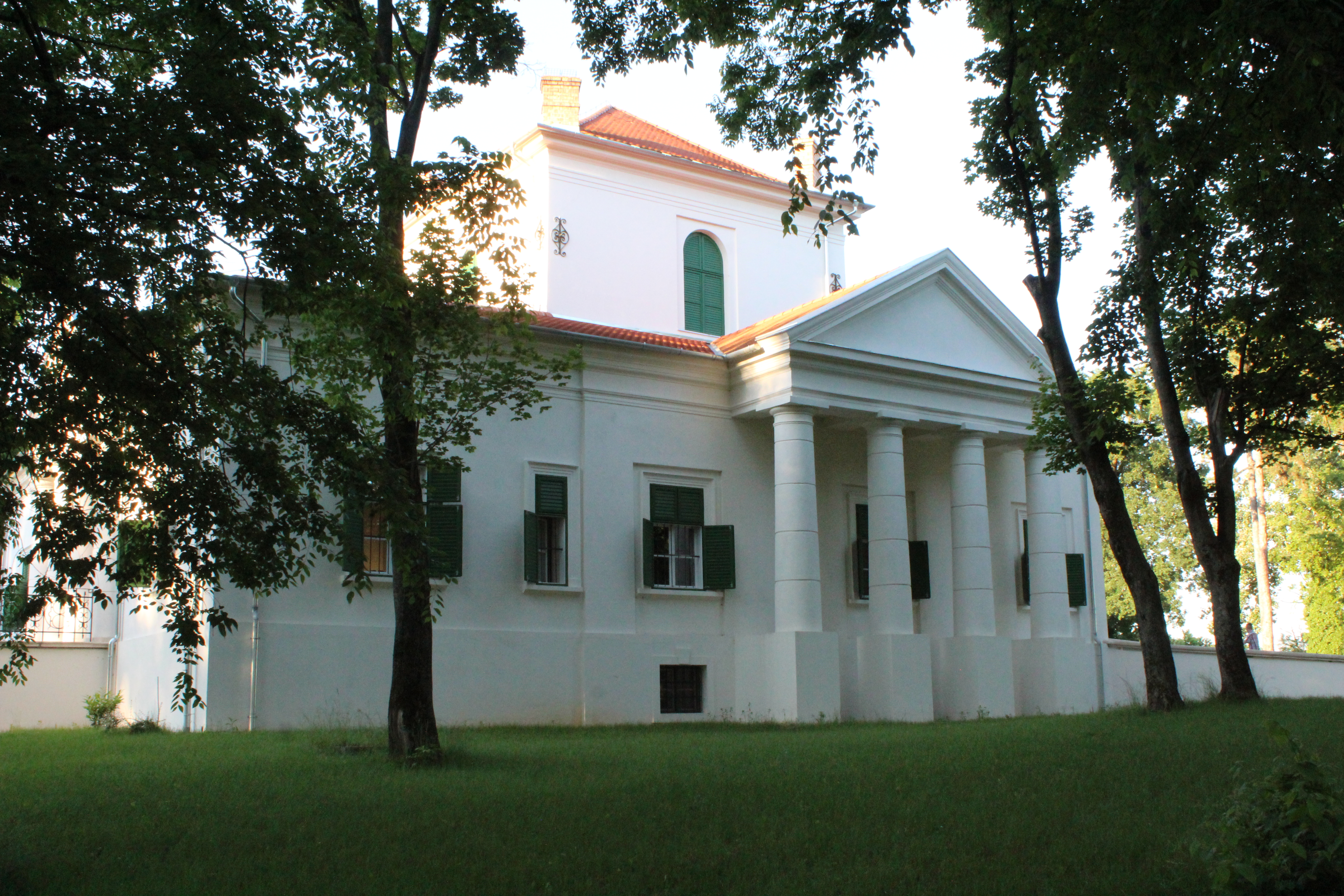 Vásárhelyi-Bréda mansion (Lőkösháza, Hungary)